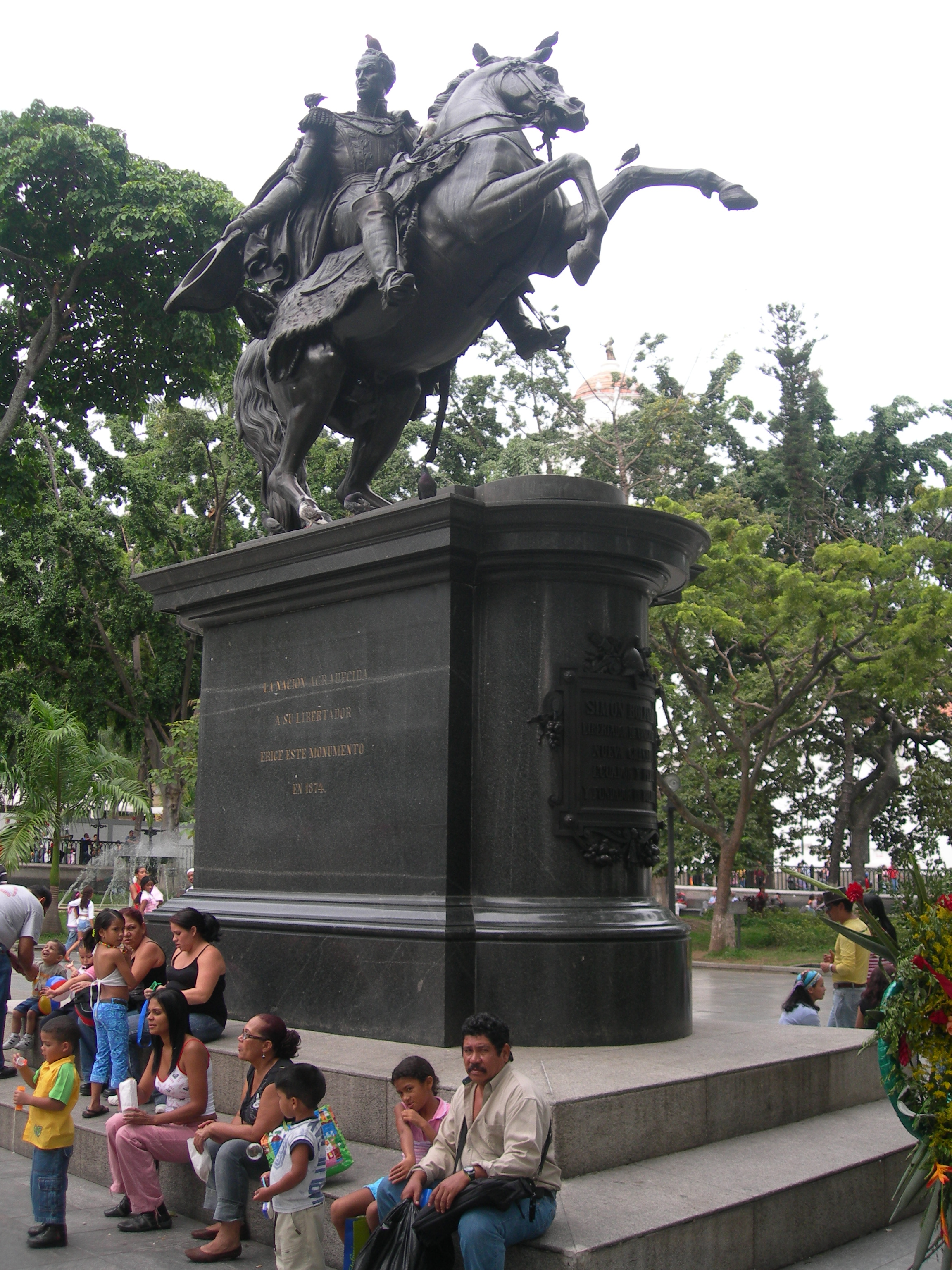 Simón Bolívar's statue located in Plaza Bolívar of Caracas (Venezuela).